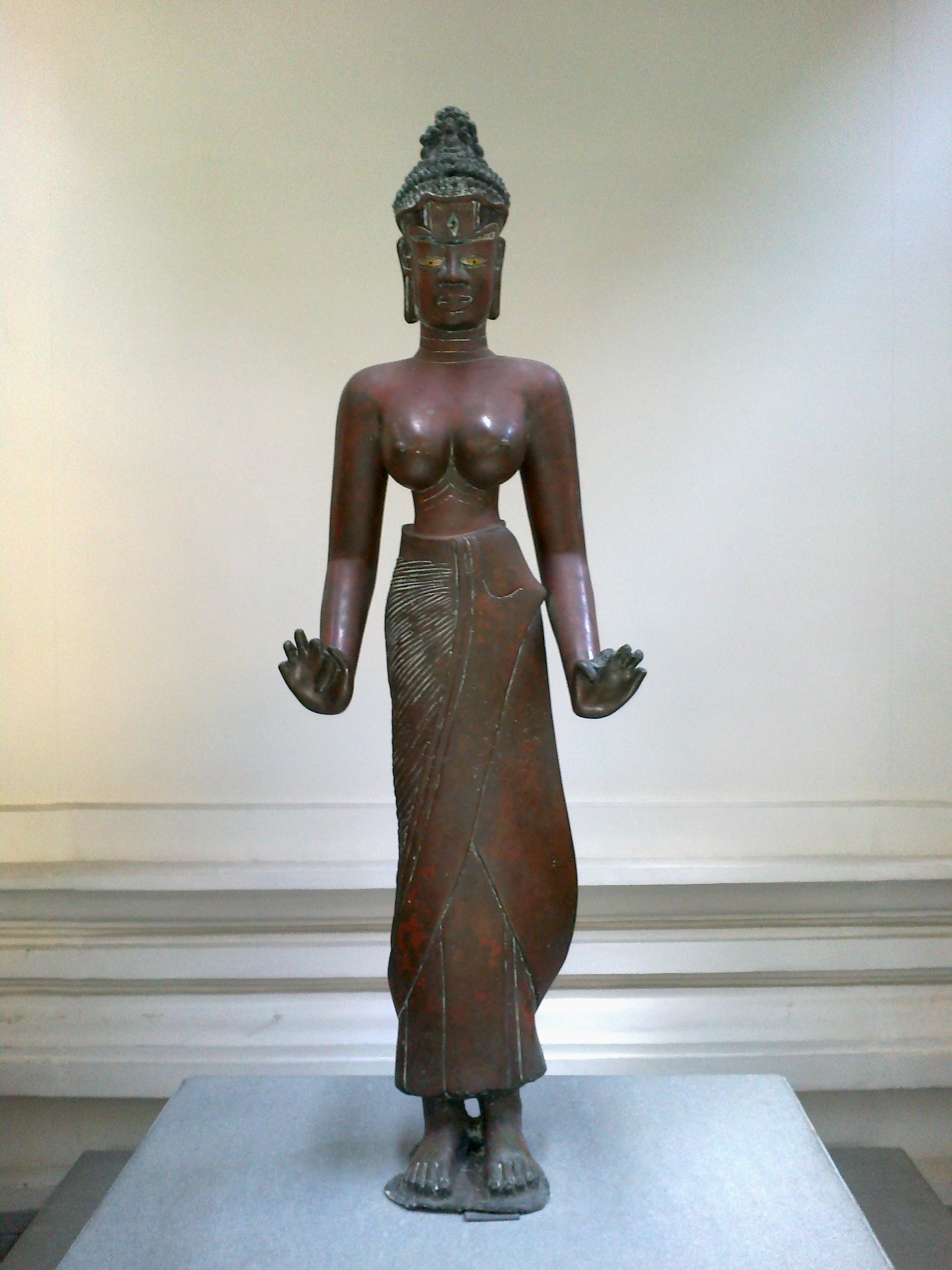 Statue of Bodhisattva in Danang Museum of Cham Sculpture